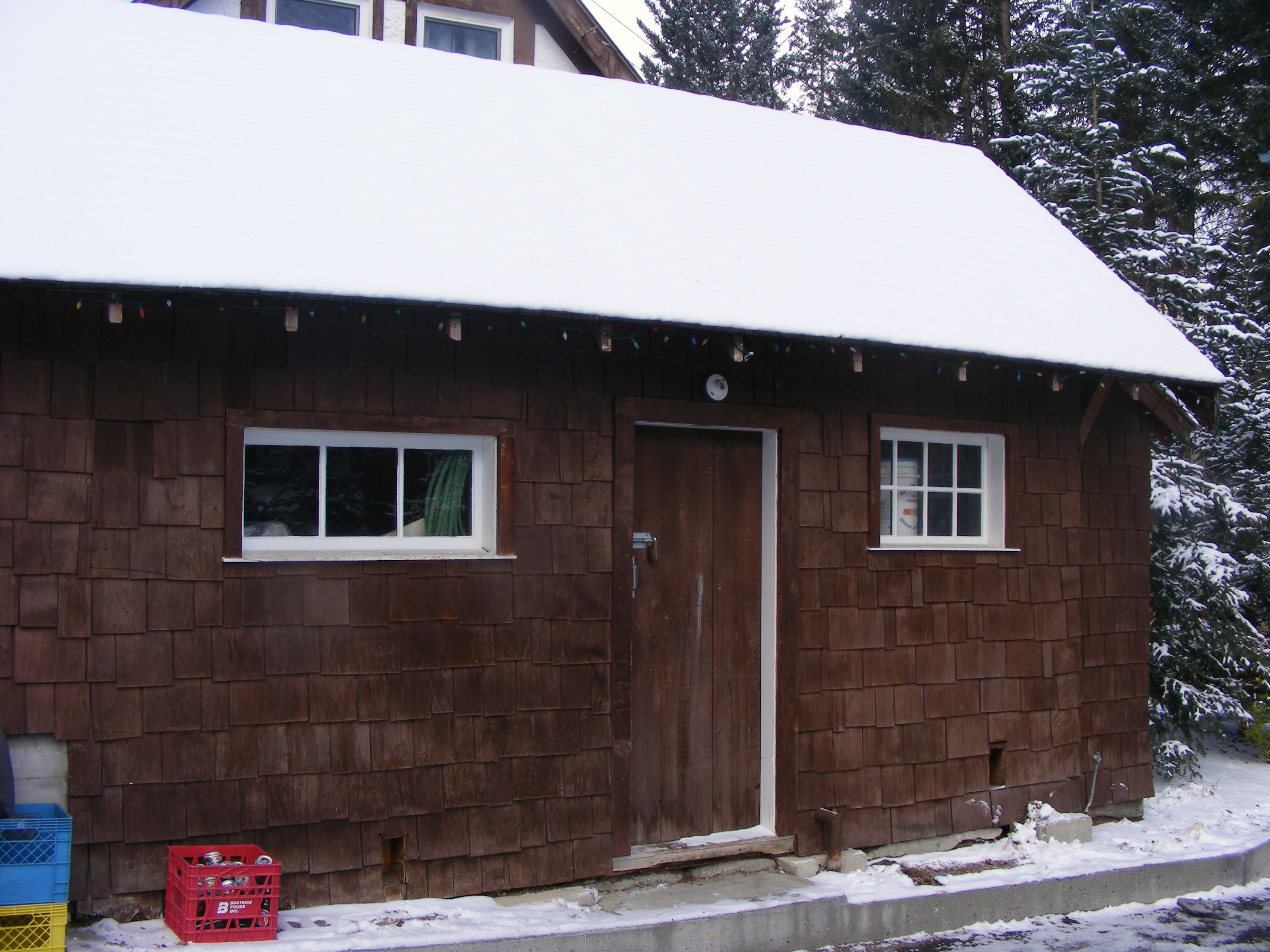 Charles Beil Kiln Building, 119 Cave Avenue, Banff, Alberta. Location on the Banff historical walking tour.